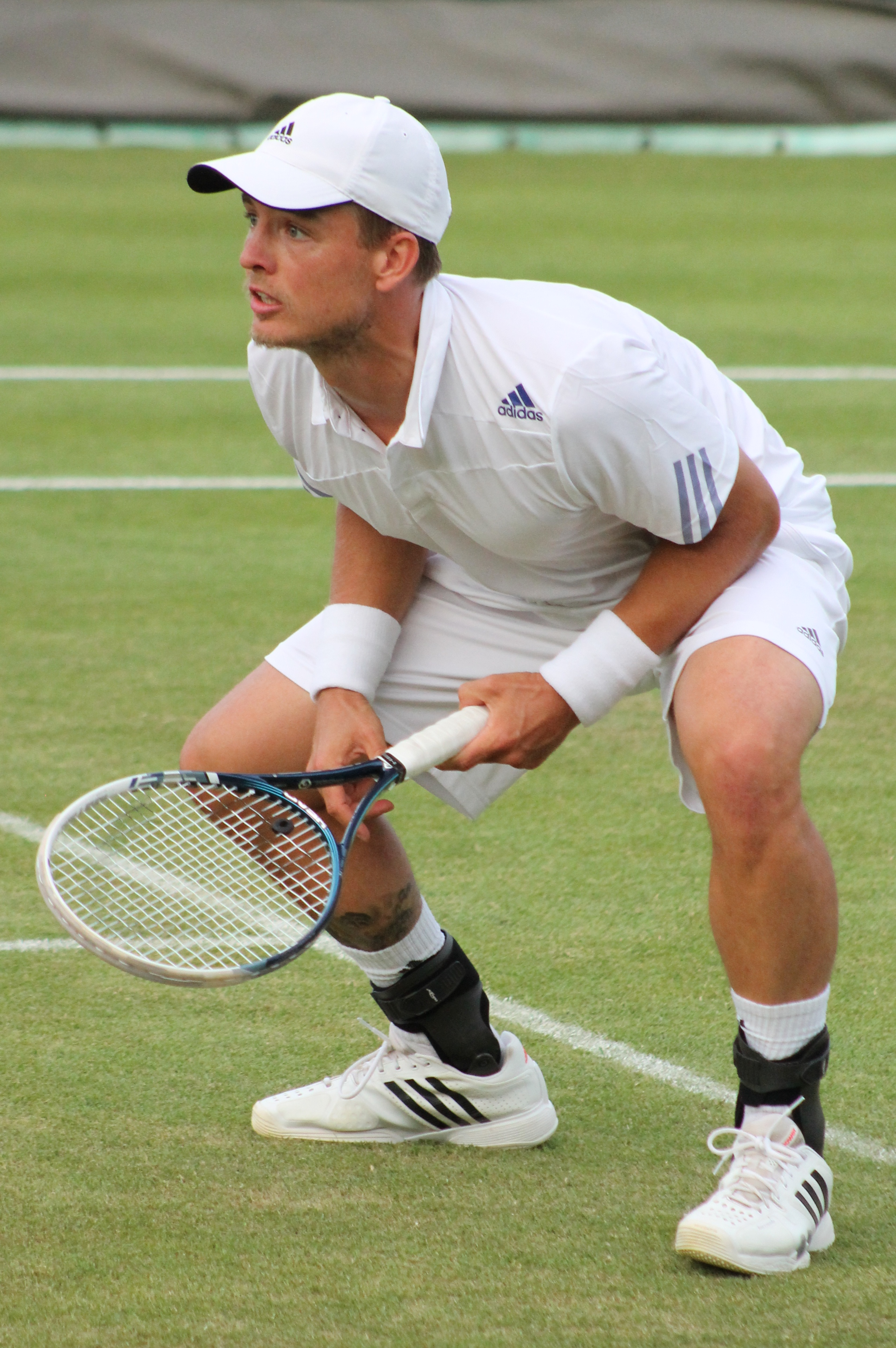 Martin Emmrich playing in 1st Round of the Mixed Doubles at Wimbledon 2013, Court 8, on 29 June 2013; partner was Julia Goerges (GER); opponents Juan-Sebastian Cabal (COL) & Bojana Jovanovski (SRB)